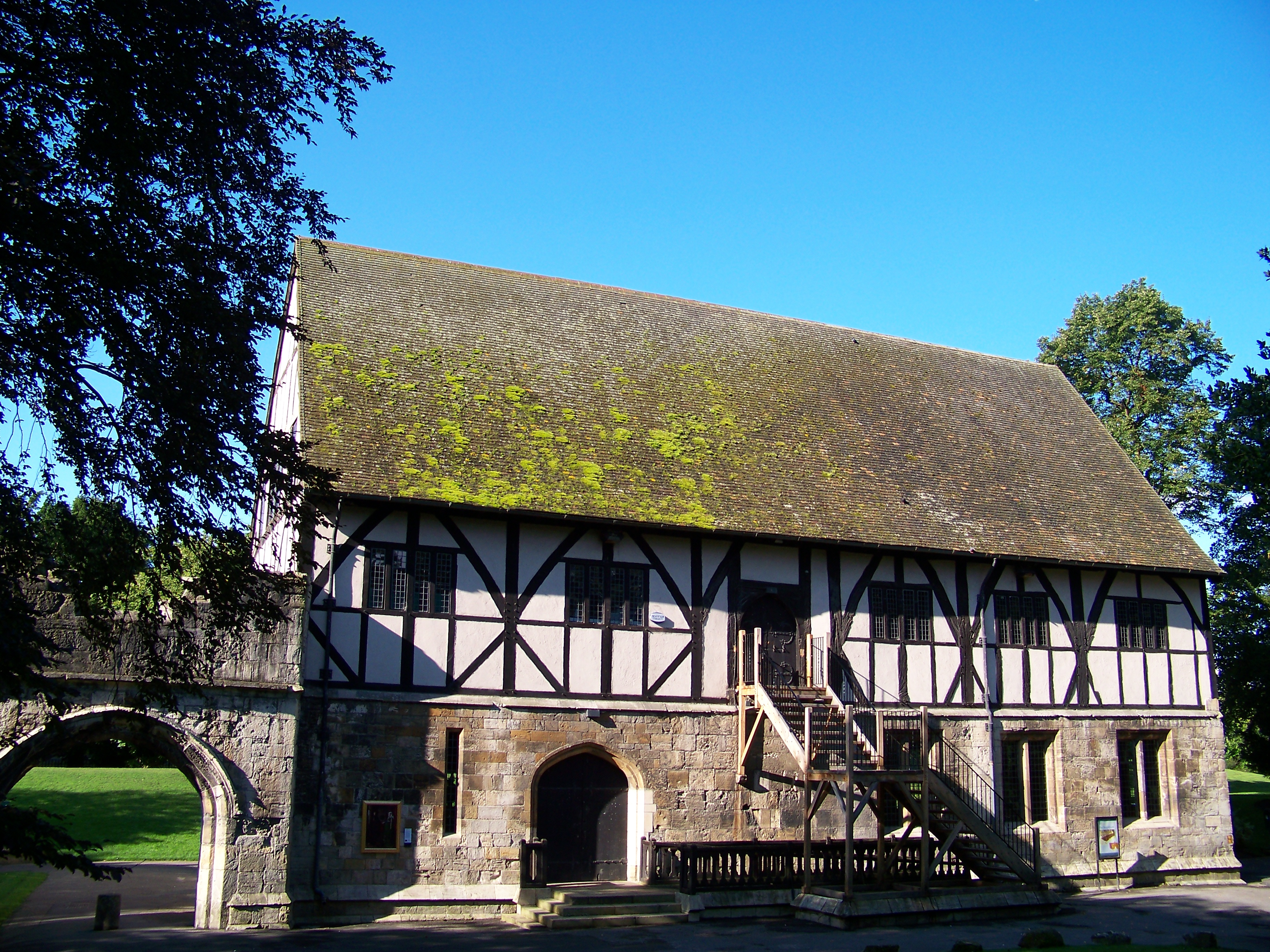 The Hospitium in Museum gardens York, England. The ground floor date from around 1300, but the upper storey has been extensively restored in modern times. The ruined gateway on the left side dates from the 15th century, and was probably the entrance to a passage that ran towards the water-gate by the river.